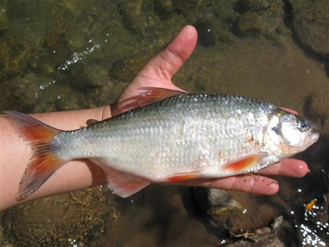 Brycon henni collected in Gomez Plata, Quebrada La Clara, Colombia.